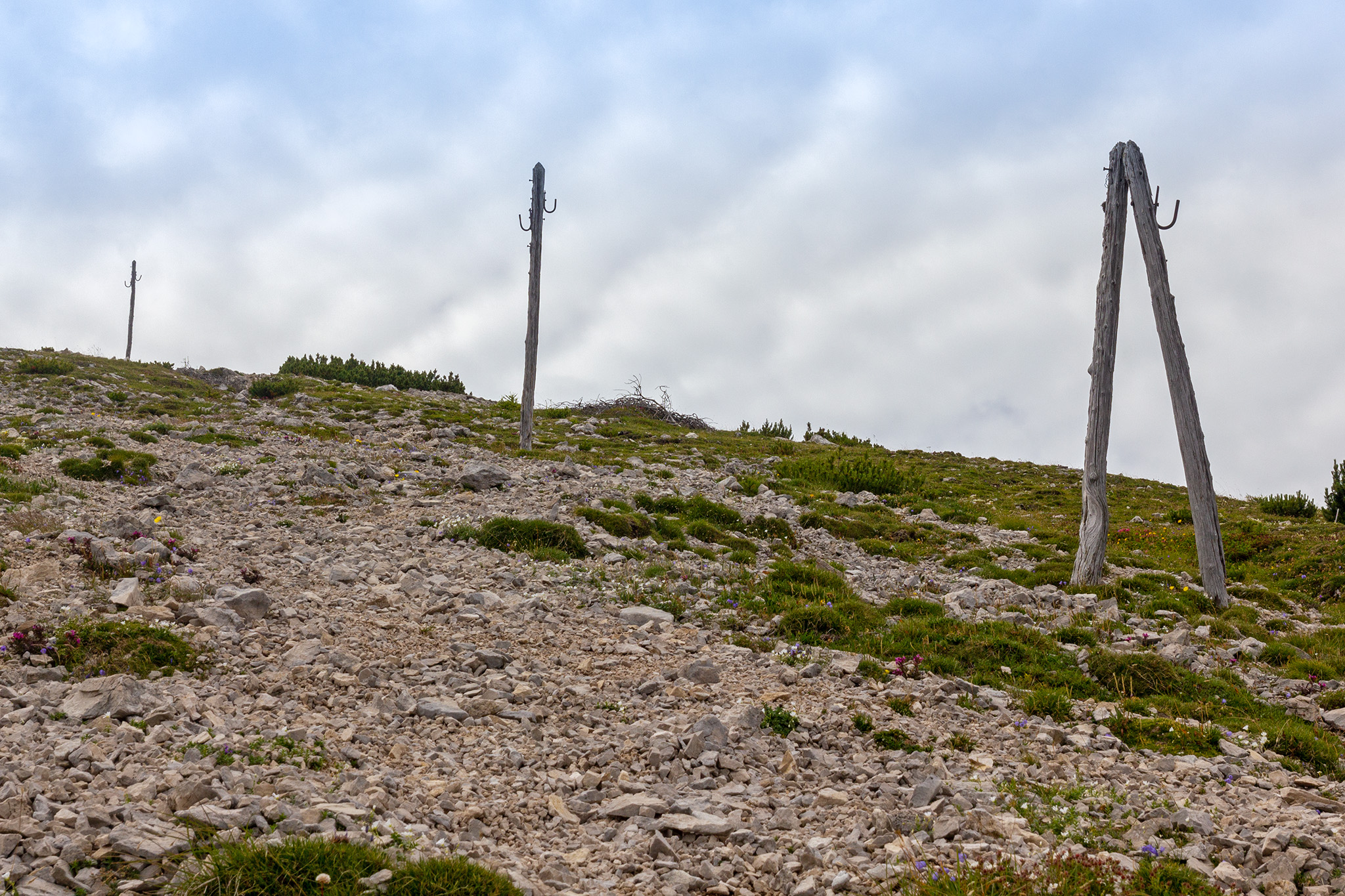 Remains of the telegraph line, which was built in 1882 to the Rainer hut at the Hochobir mountain (Karawanks, Carinthia, Austria), in order to be able to transmit the meteorological measurements down to the valley.